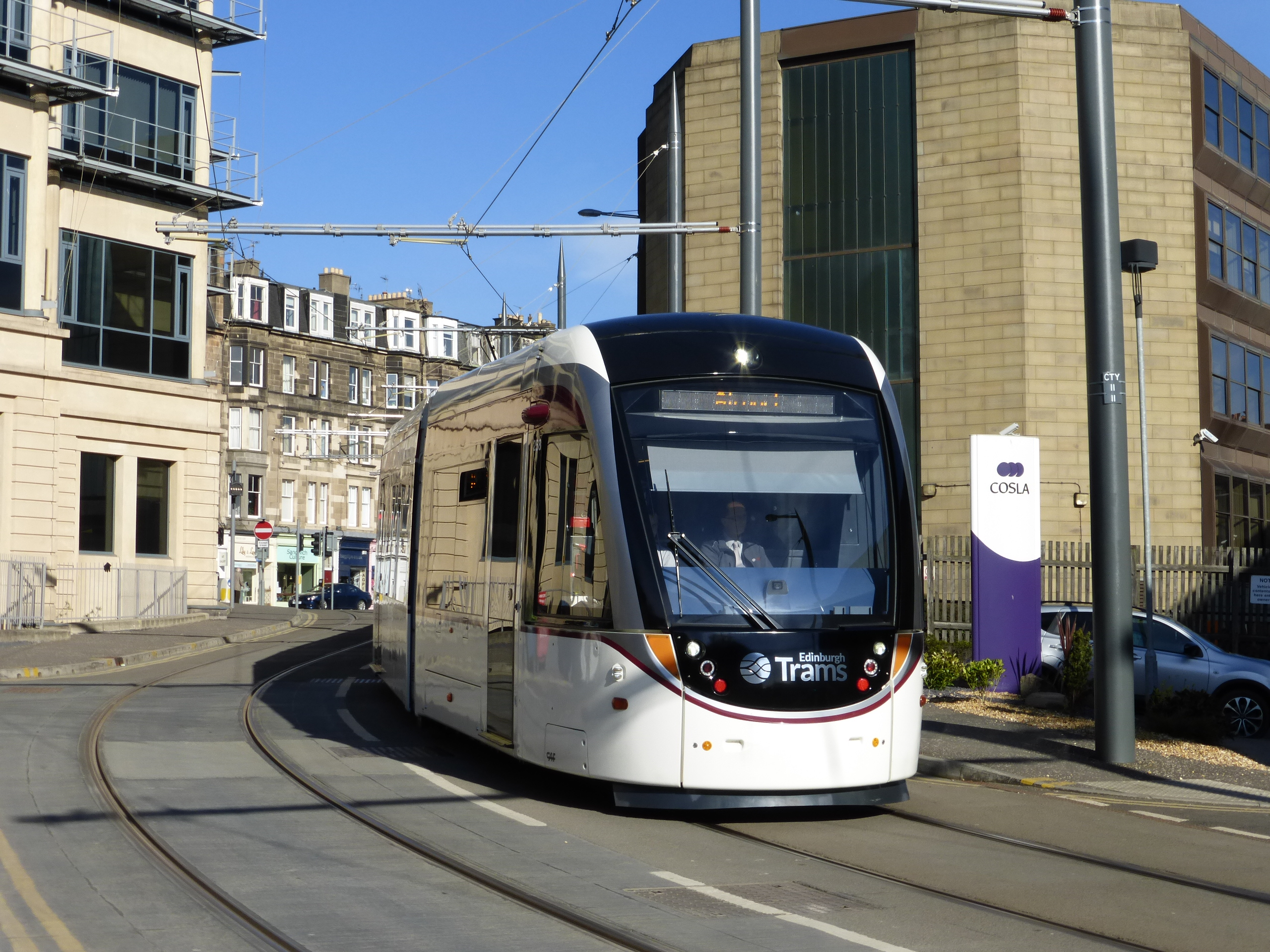 Tram en route to Edinburgh Airport